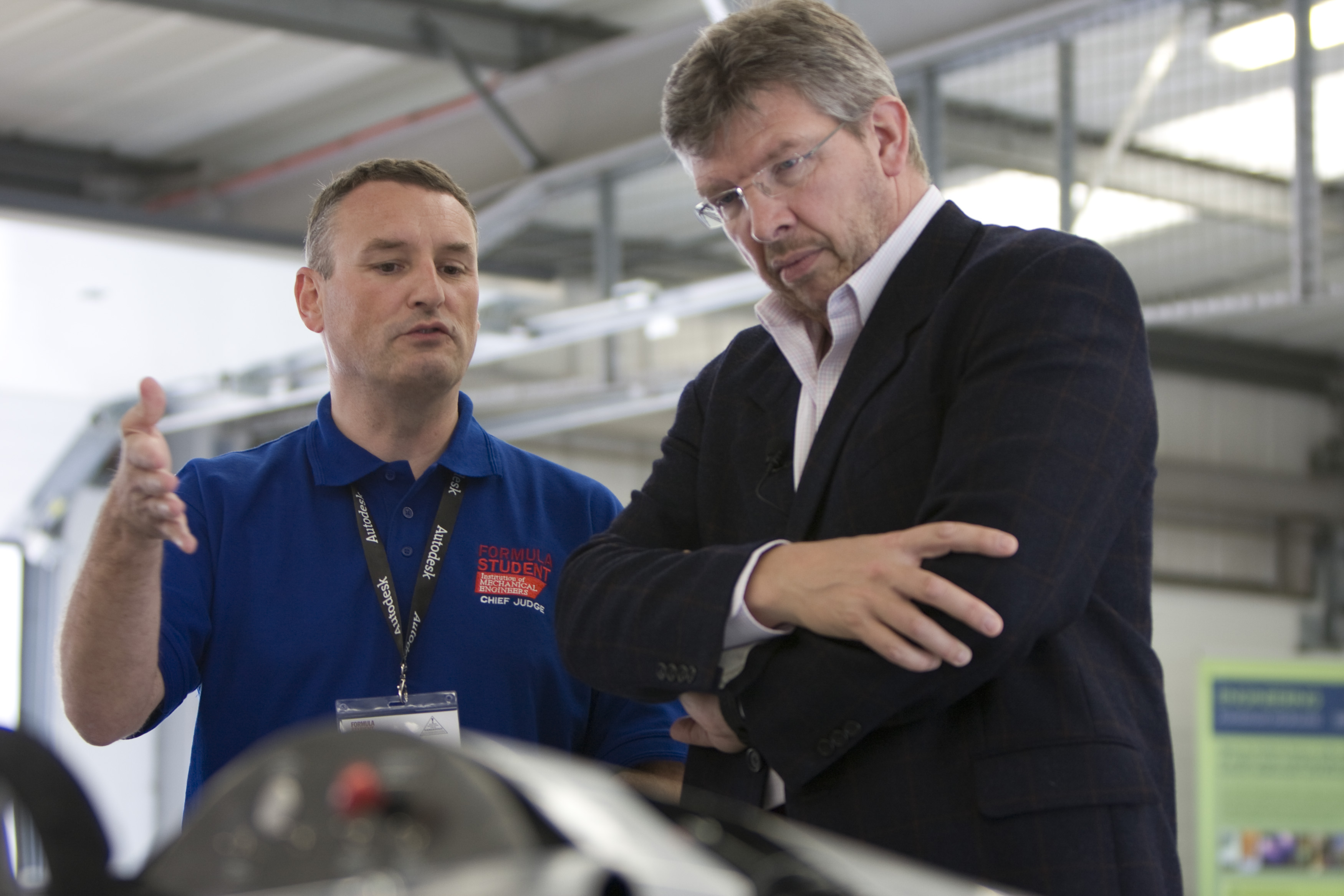 Ross Brawn at Formula Students 2009's paddock